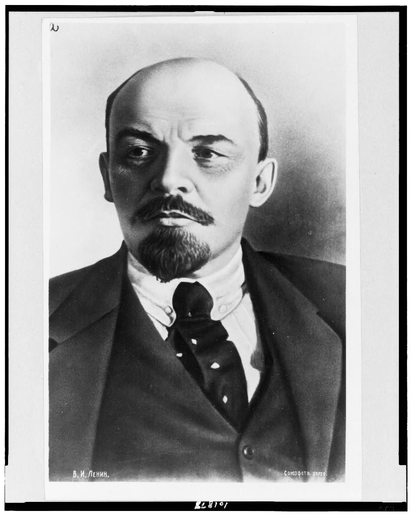 Title: Vladimir Ilʹich Lenin, head-and-shoulders portrait, facing slightly left] / Soyuzfoto Abstract/medium: 1 photographic. print.